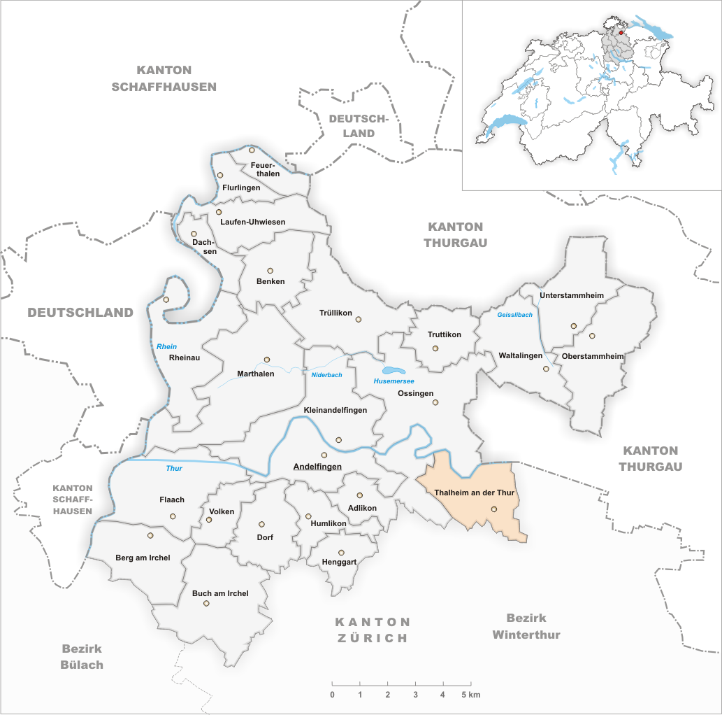 Municipality Thalheim an der Thur